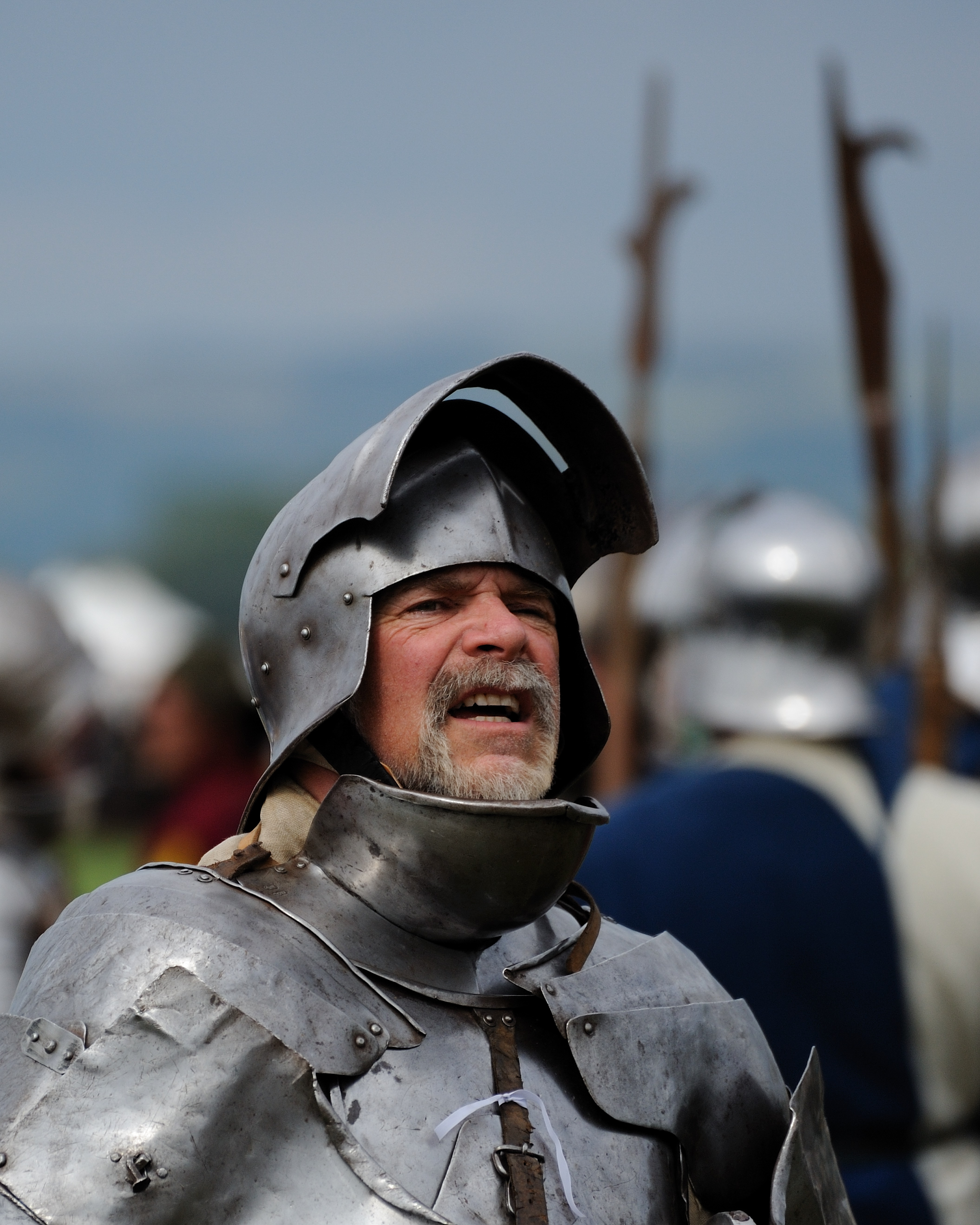 David Cadle, the Knight, in a re-enactment of the Battle of Tewkesbury. The battle took place on 4 May 1471 and was one of the decisive battles of the Wars of the Roses. The forces loyal to the House of Lancaster were completely defeated by those of the rival House of York under their monarch, King Edward IV.